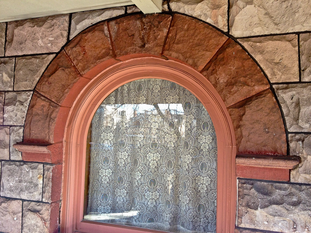 Detail of front window, Molly Brown House, Denver, Colorado, USA.